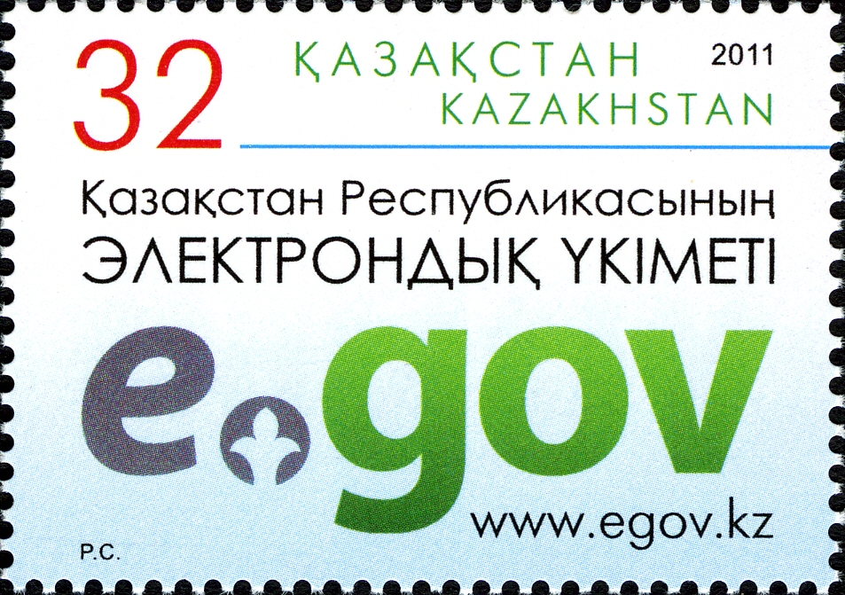 Stamps of Kazakhstan, 2011